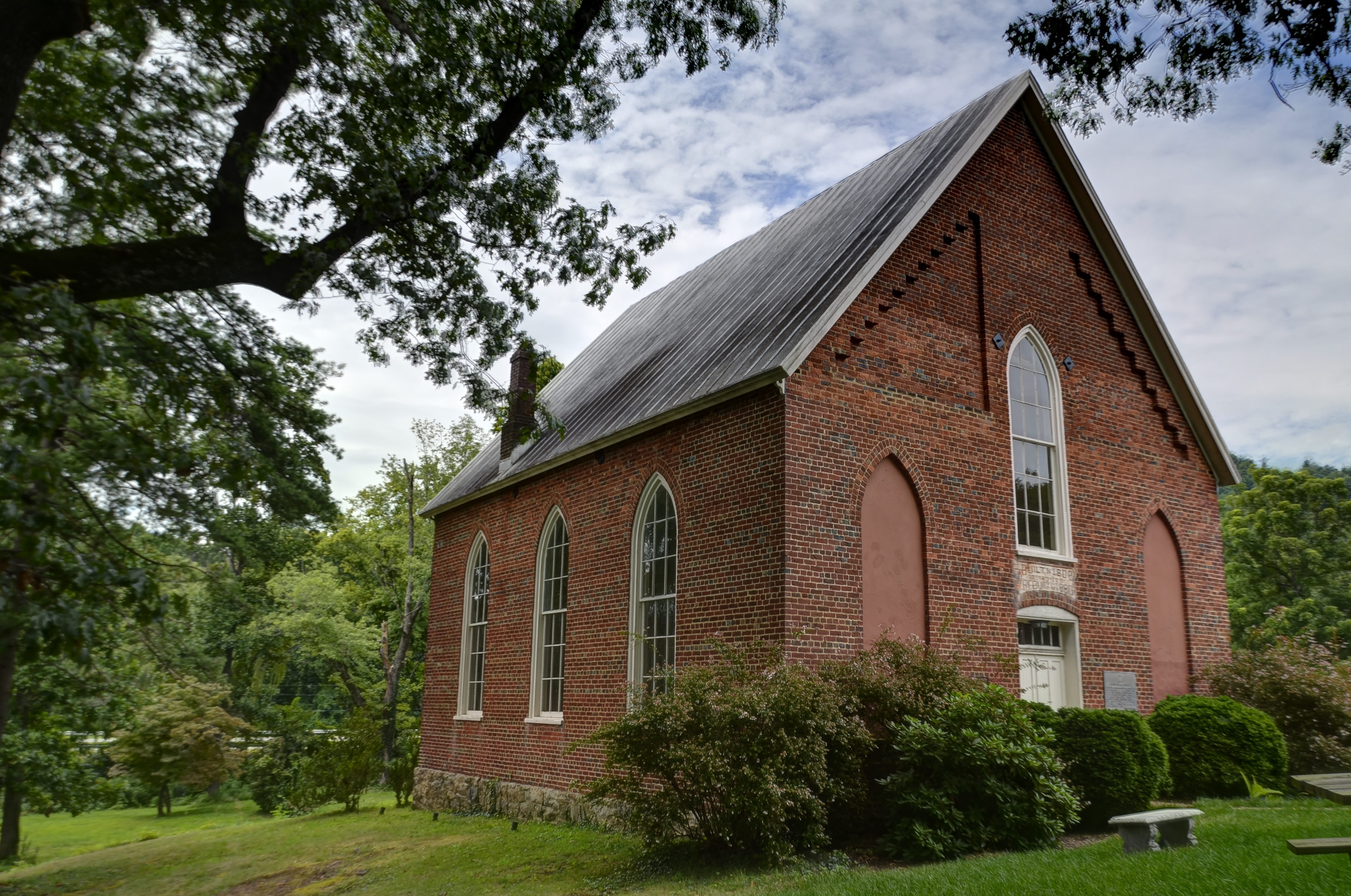 Covesville Historic District, Roughly along the railroad tracks, US 29, Covesville Ln.